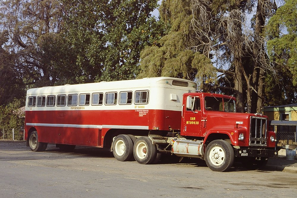 International Harvester Transtar 4200/4300 (conventional cab).Motor coach of the South African Railways (SAR) at Ficksburg station/South Africa. The motor coach is of a semi-trailer towing vehicle type